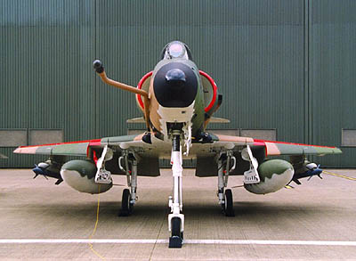 Head on profile of an Douglas/Singapore Aircraft Industries A-4SU Super Skyhawk. Note the cranked refueling probe, the drooped leading edge slats as well as the Ram-air intake mounted on the portside for cooling the jet engine. Note also the inert blue AIM-9 Sidewinder air-to-air missiles mounted on the outboard pylons.